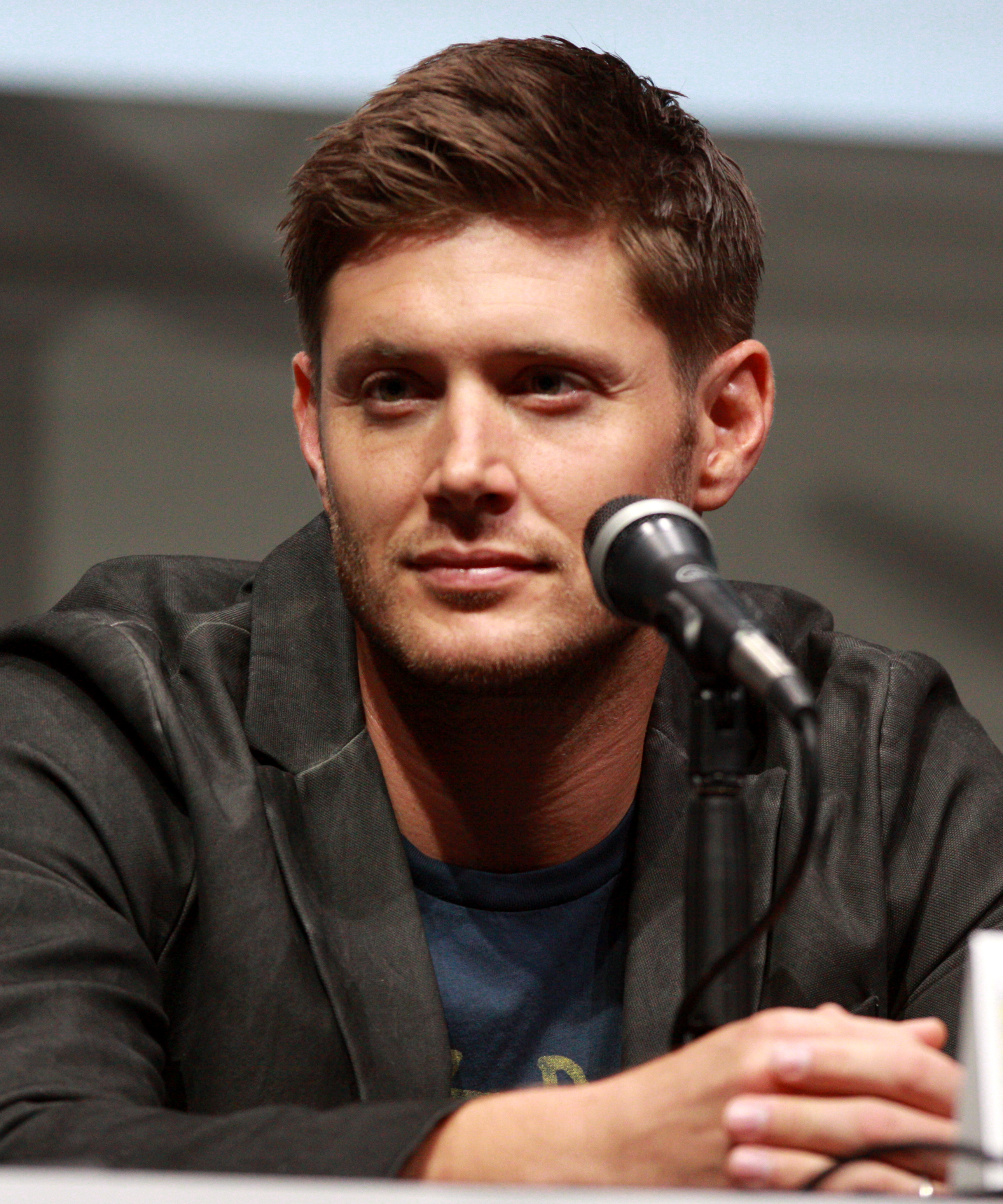 Jensen Ackles at the 2013 San Diego Comic Con International in San Diego, California.